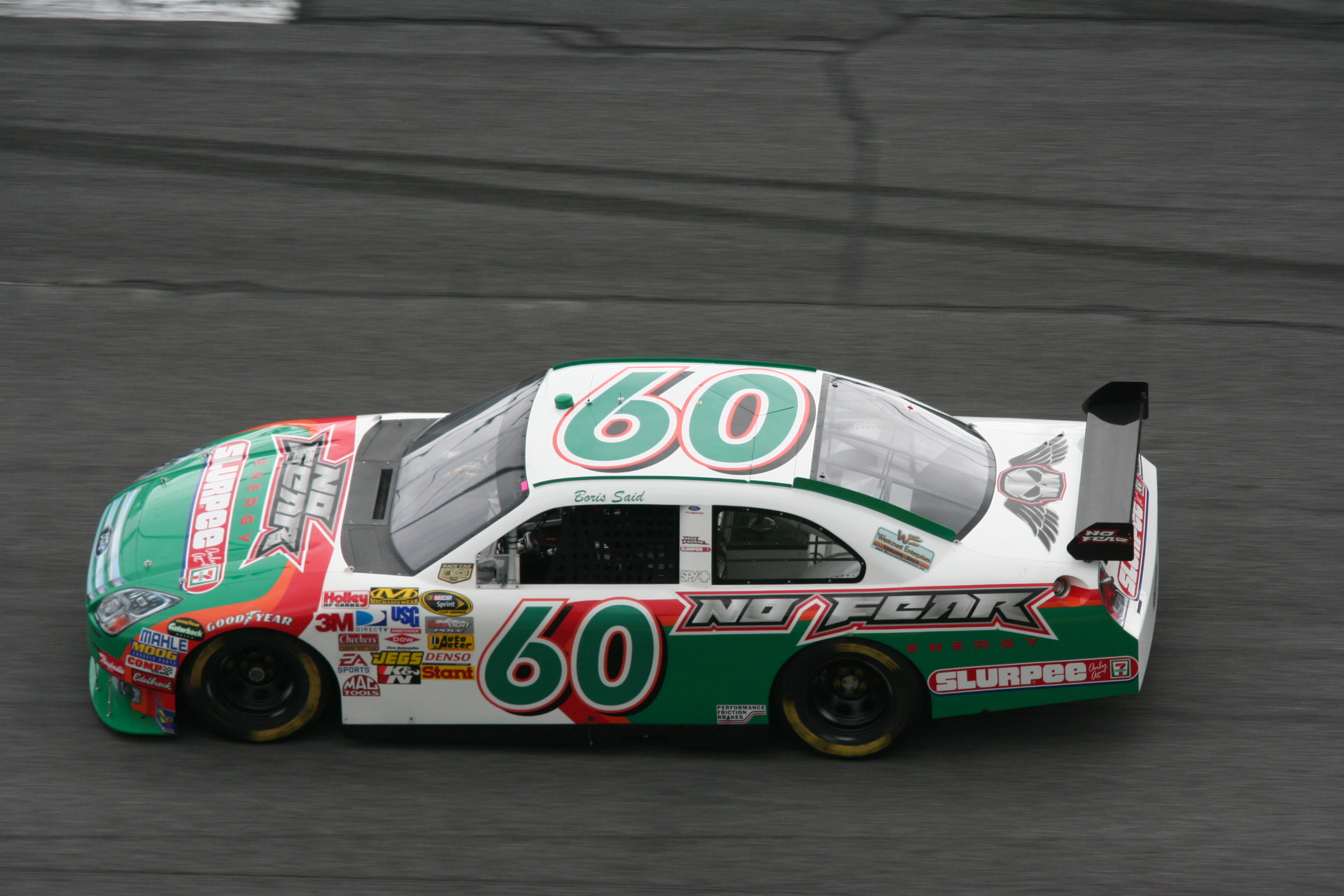 Shot by The Daredevil at Daytona during Speedweeks 2008